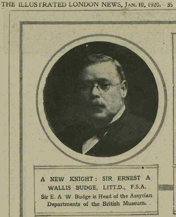 Article from The Illustrated London News, January 10, 1920, picturing E. A. Wallis Budge.